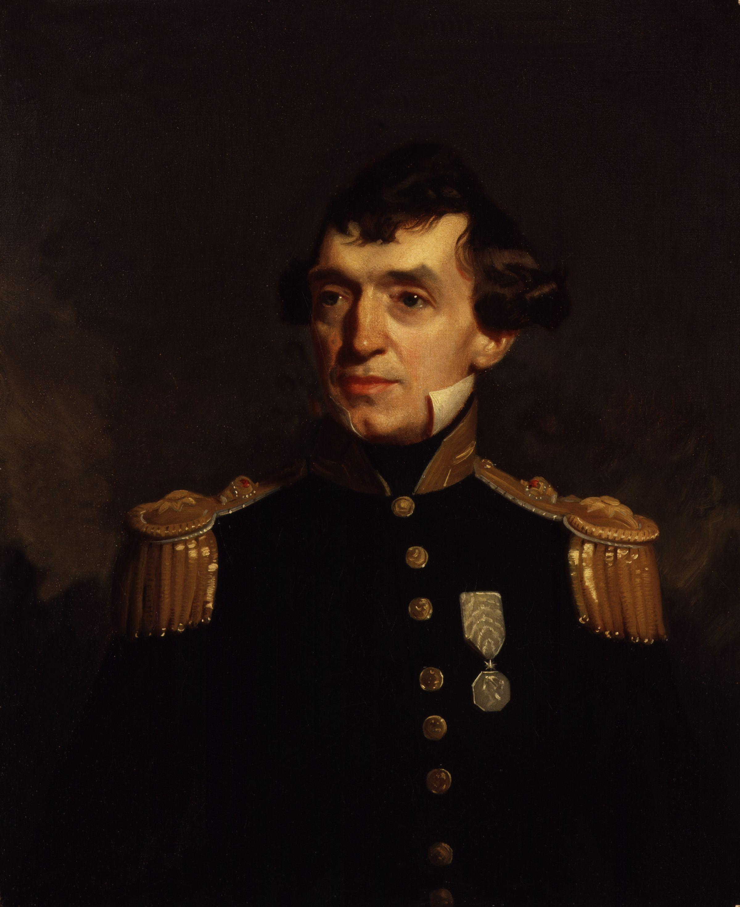 Robert McCormick, by Stephen Pearce (died 1904). All images in this batch have been confirmed as author died before 1939 according to the official death date listed by the NPG.